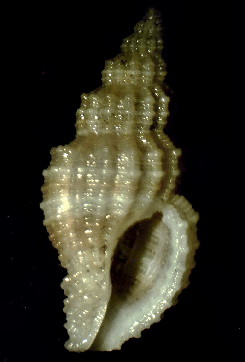 Bailya parva C. B. Adams, 1850, a true whelk from the family Buccinidae